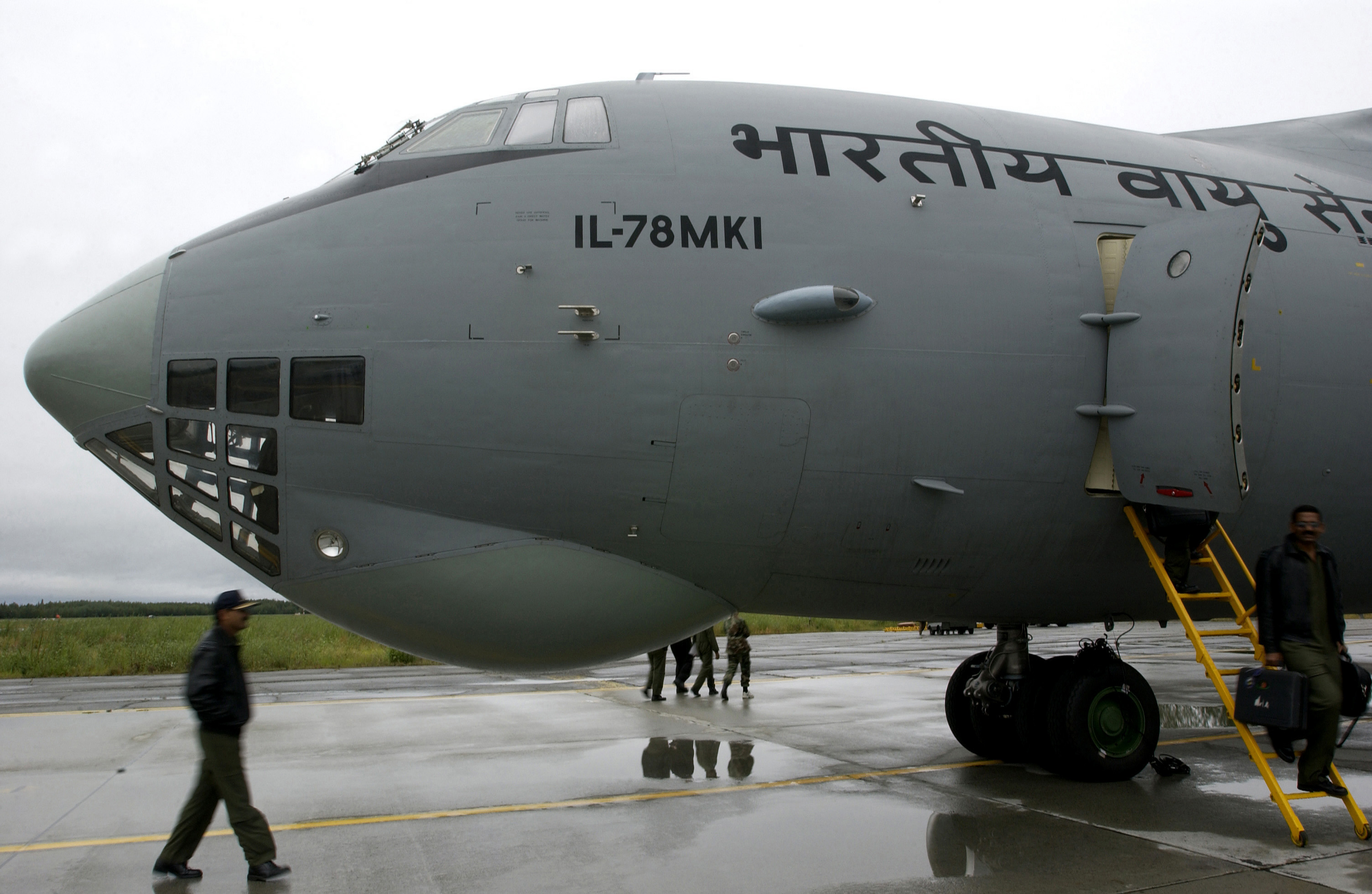 Two Indian Air Force (IAF) 78th Squadron flight crew members prepare their IAF Ilyushin IL-78 Midas aerial refueling aircraft to take off from Eielson FB, Alaska (AK), to participate in an aerial refueling mission during Exercise COOPERATIVE COPE THUNDER, the largest multinational air combat training exercise in the Pacific. This 15-day exercise simulates wartime combat conditions so that military personnel from 12-nations can sharpen their air fighting skills, exchange air operational tactics, and build closer relations with each other.